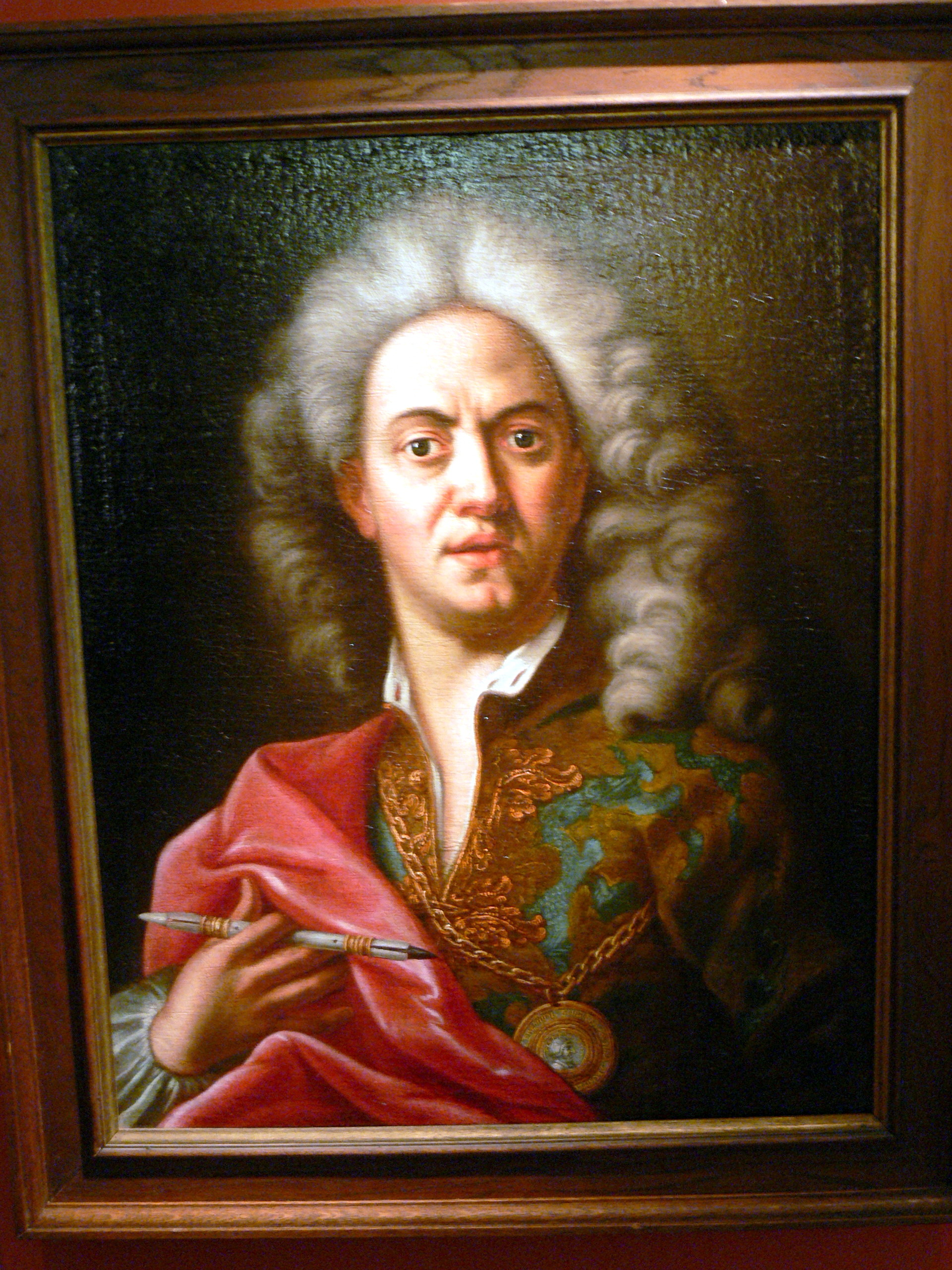 Portrait of the baroque painter Cosmas Damian Asam, shown in the exhibition "Bavaria - Bohemia" 2007 in Zwiesel ( Bavaria )